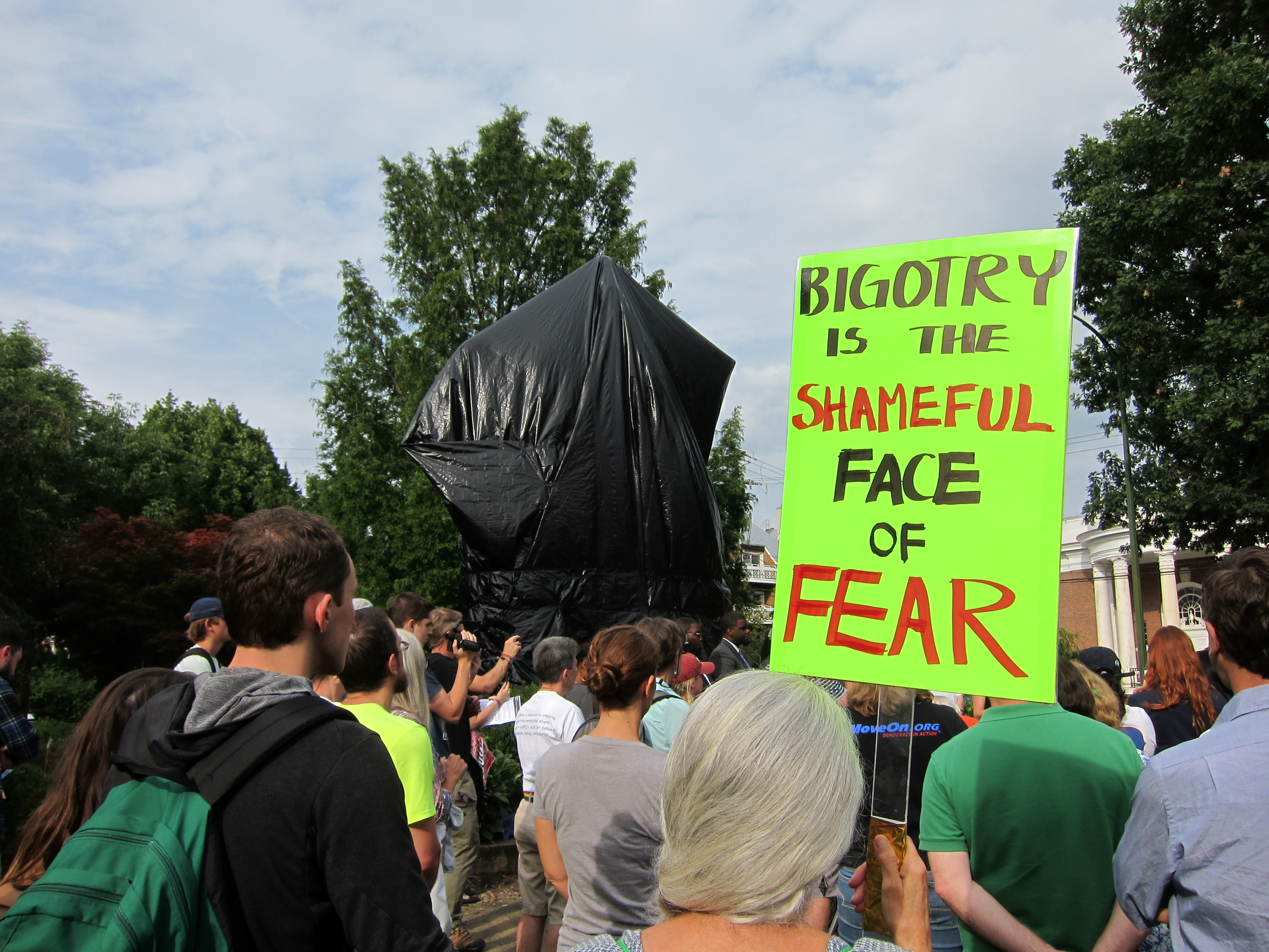 Organizers from the March to Confront White Supremacy stand in front of the Robert Edward Lee sculpture in Charlottesville, Virginia.